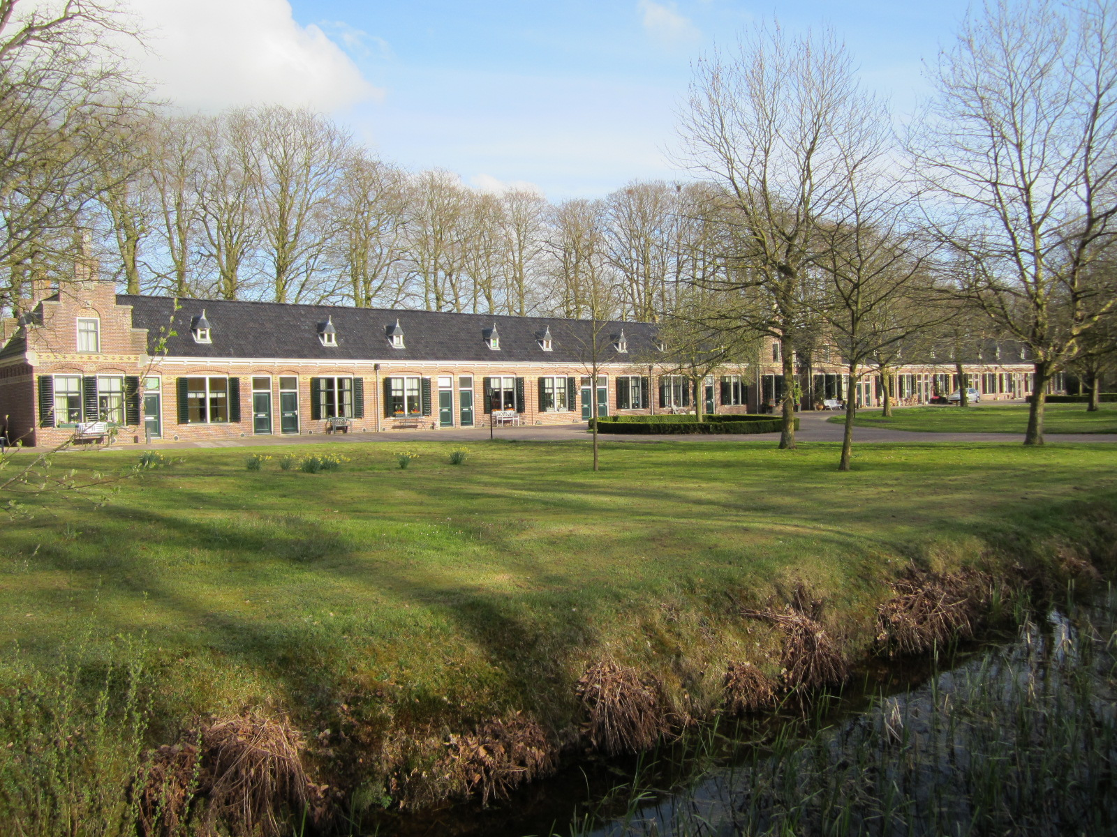 Residential Toutenburg, near village Tietjerk, county Friesland, The Netherlands.